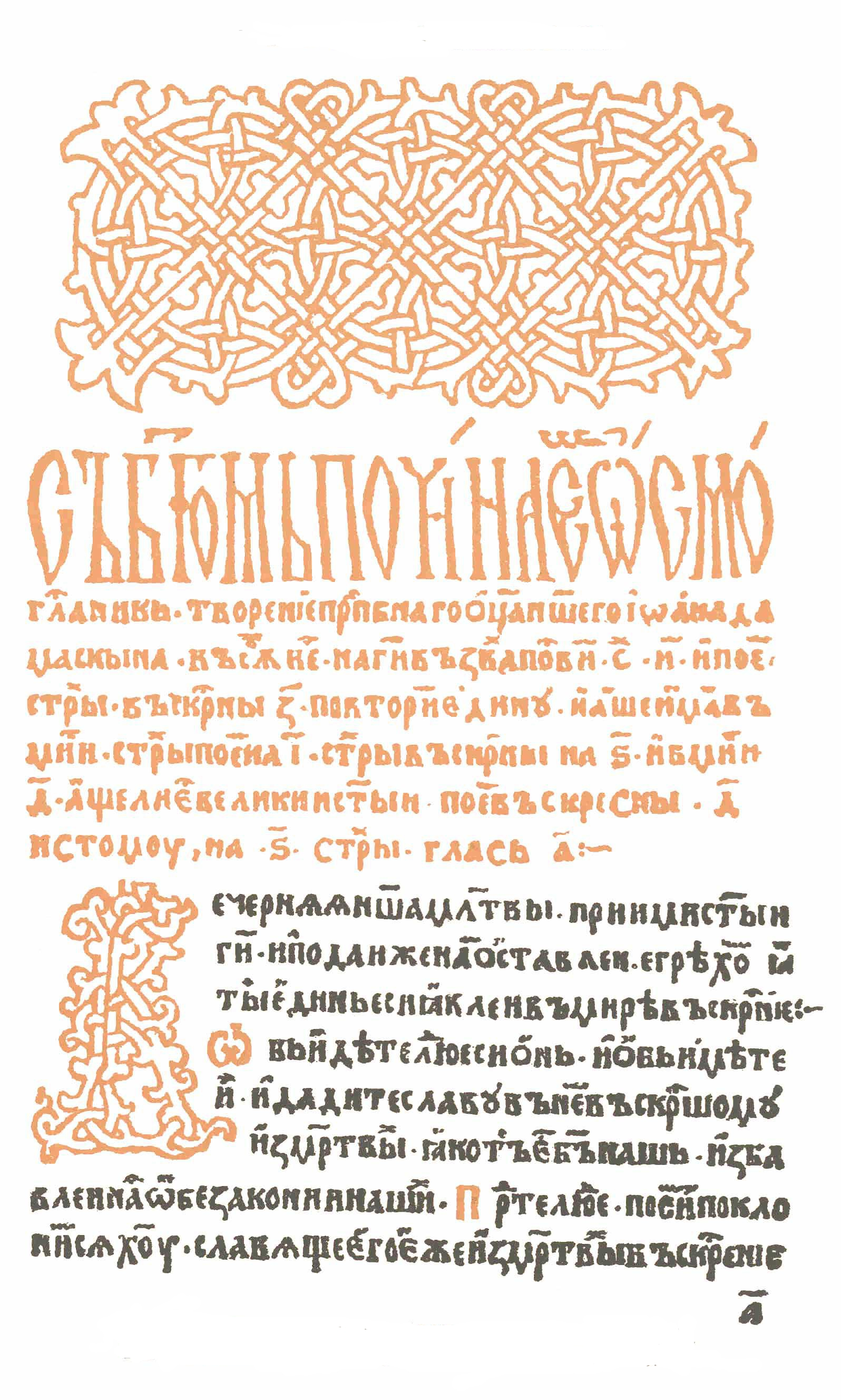 Illustration from Brockhaus and Efron Encyclopedic Dictionary (1890—1907)